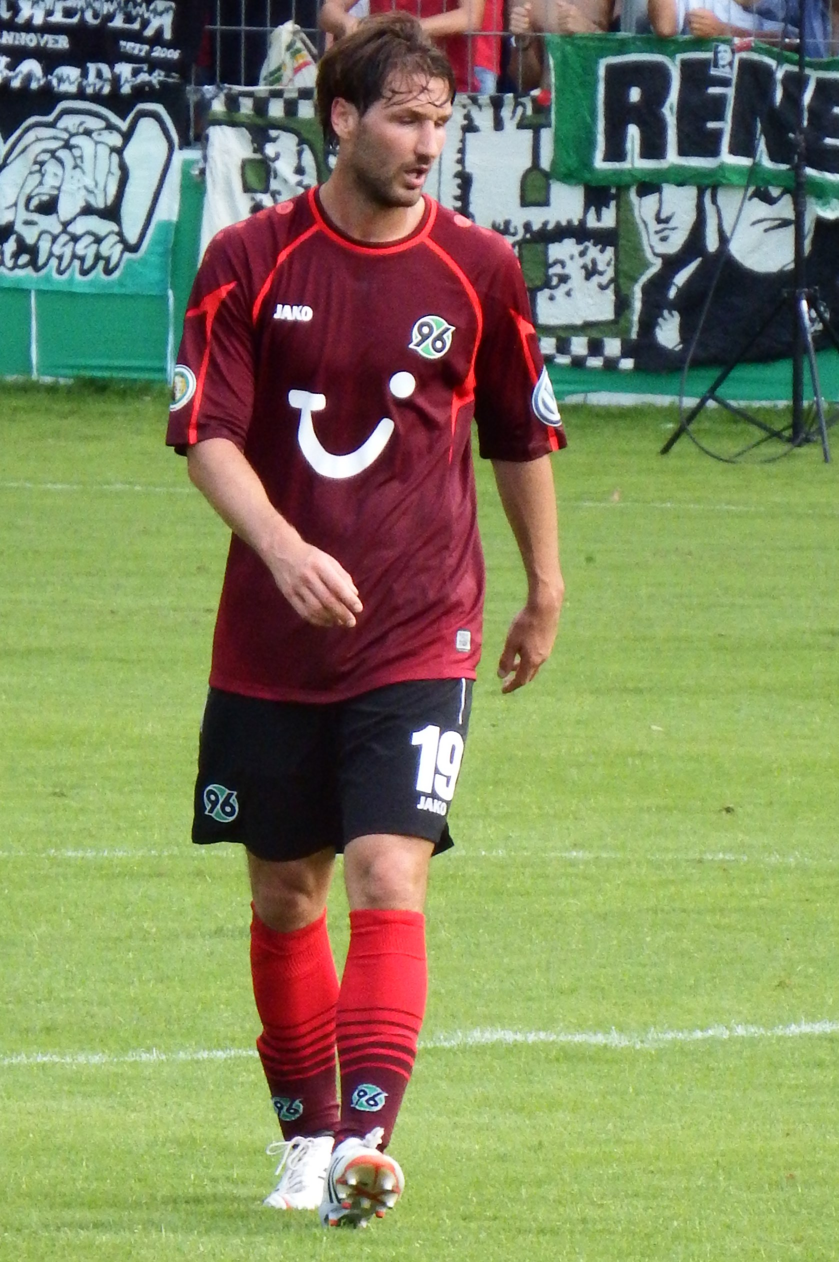 Christian Schulz as Player of Hannover 96